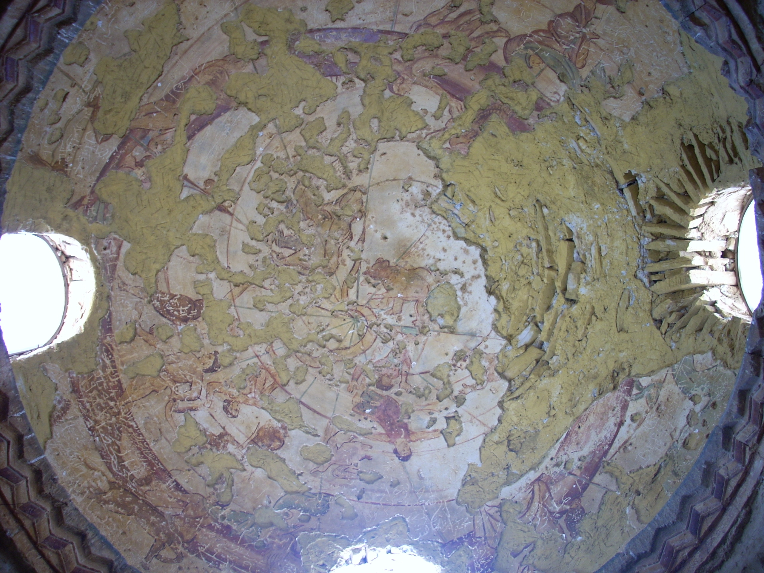 8th-century hammam-bathouse fresco of the Zodiac, on the caldarium dome's ceiling inside Qasr Amra — Jordan. Picture of the round ceiling, the Zodiac can be seen as a red stroke. Clearly visible in the center is a bear, the sign of Ursa Minor. Ursa Major is also visible, amongst other signs. The Umayyad fresco-painting is heavely damaged. To the left, right and bottom of the picture are three windows.